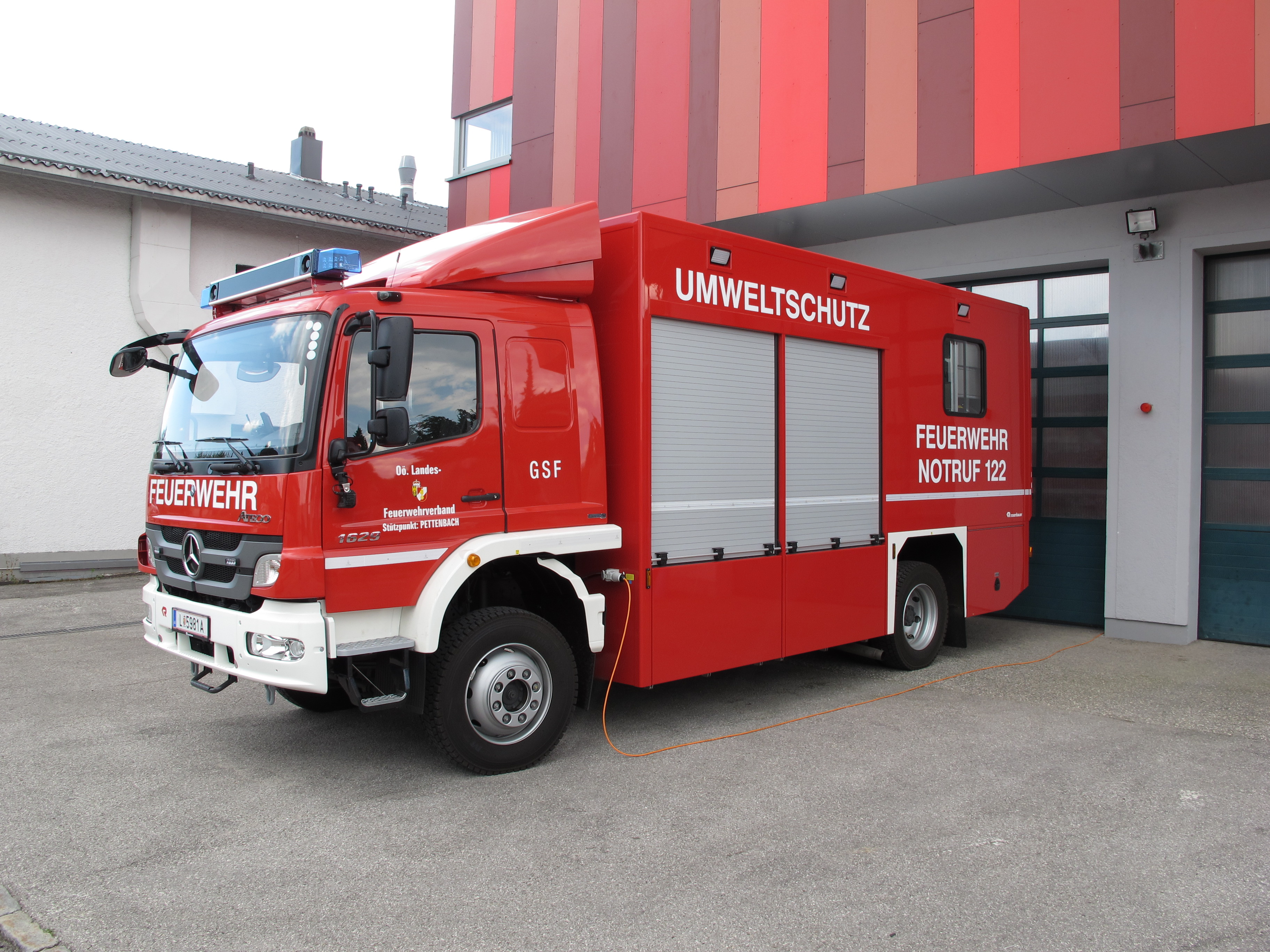 GSF Pettenbach